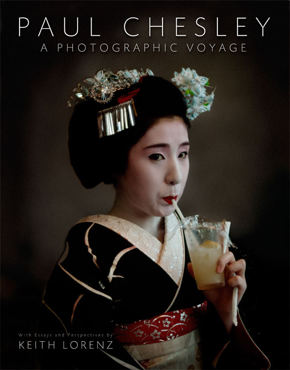 Book cover for "Paul Chesley - A Photographic Voyage" by Paul Chesley and Keith Lorenz